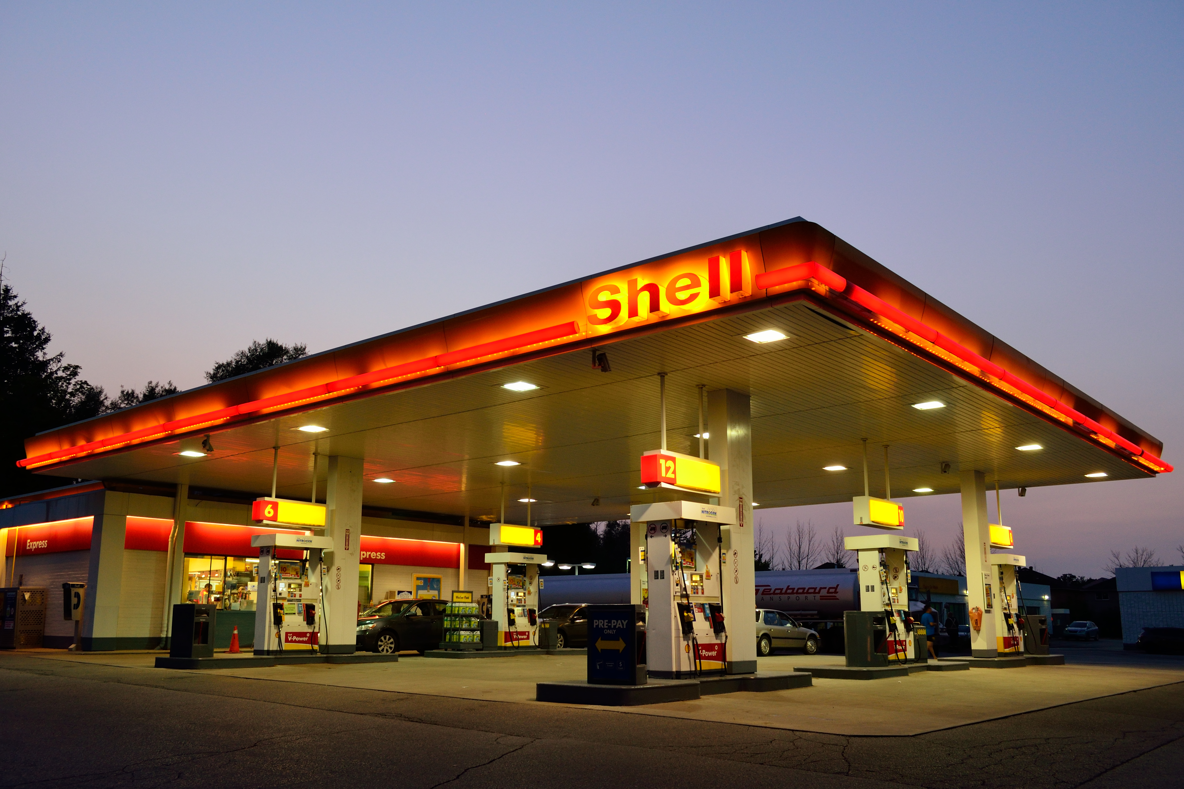 Shell Station in Ontario, Canada